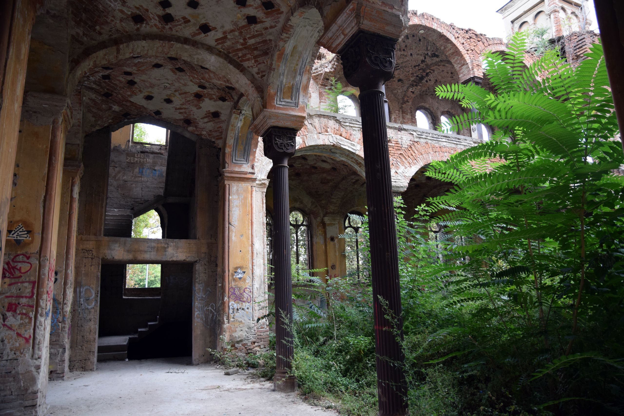 Vidin synagogue